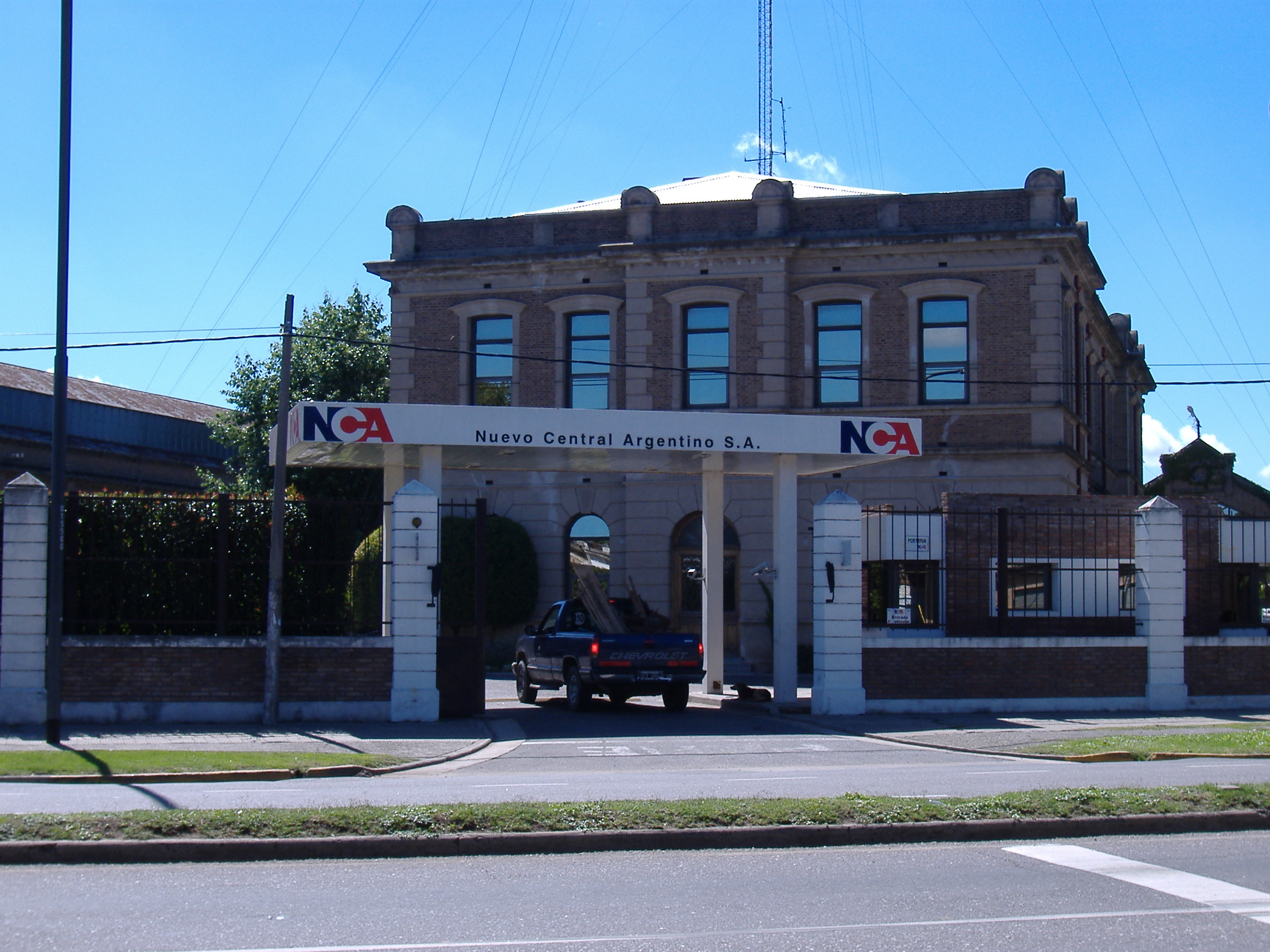 The headquarters of the Nuevo Central Argentino railway company in Rosario, Argentina. I, Pablo D. Flores, took this picture in November 2005.